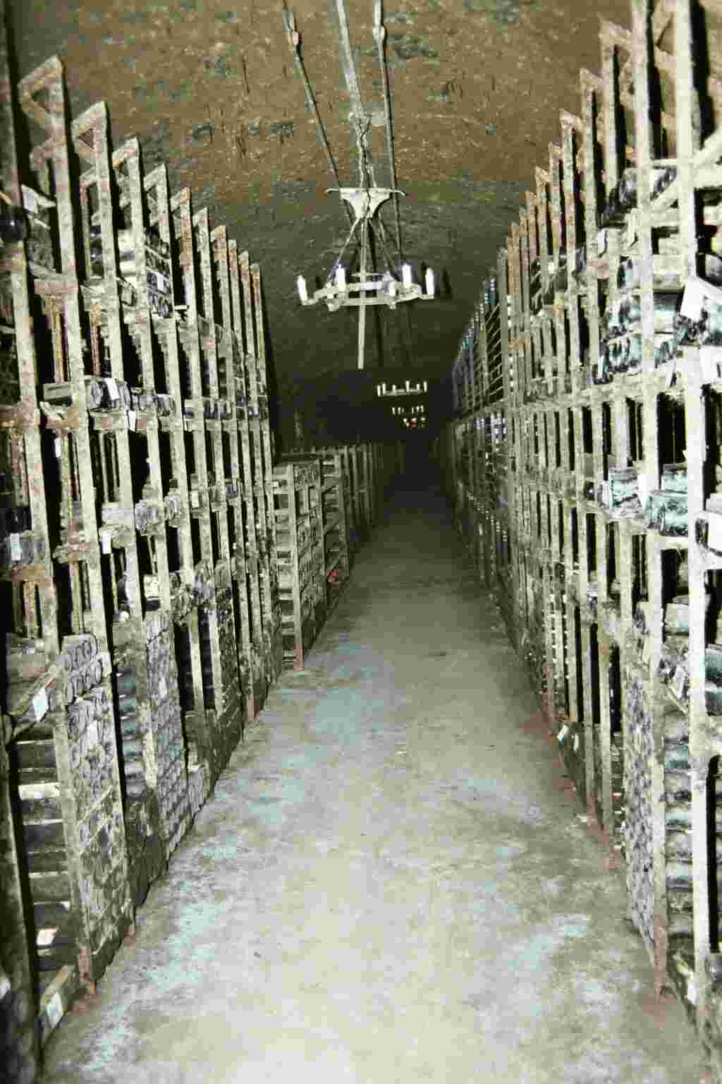 Château Mouton-Rothschild in Pauillac